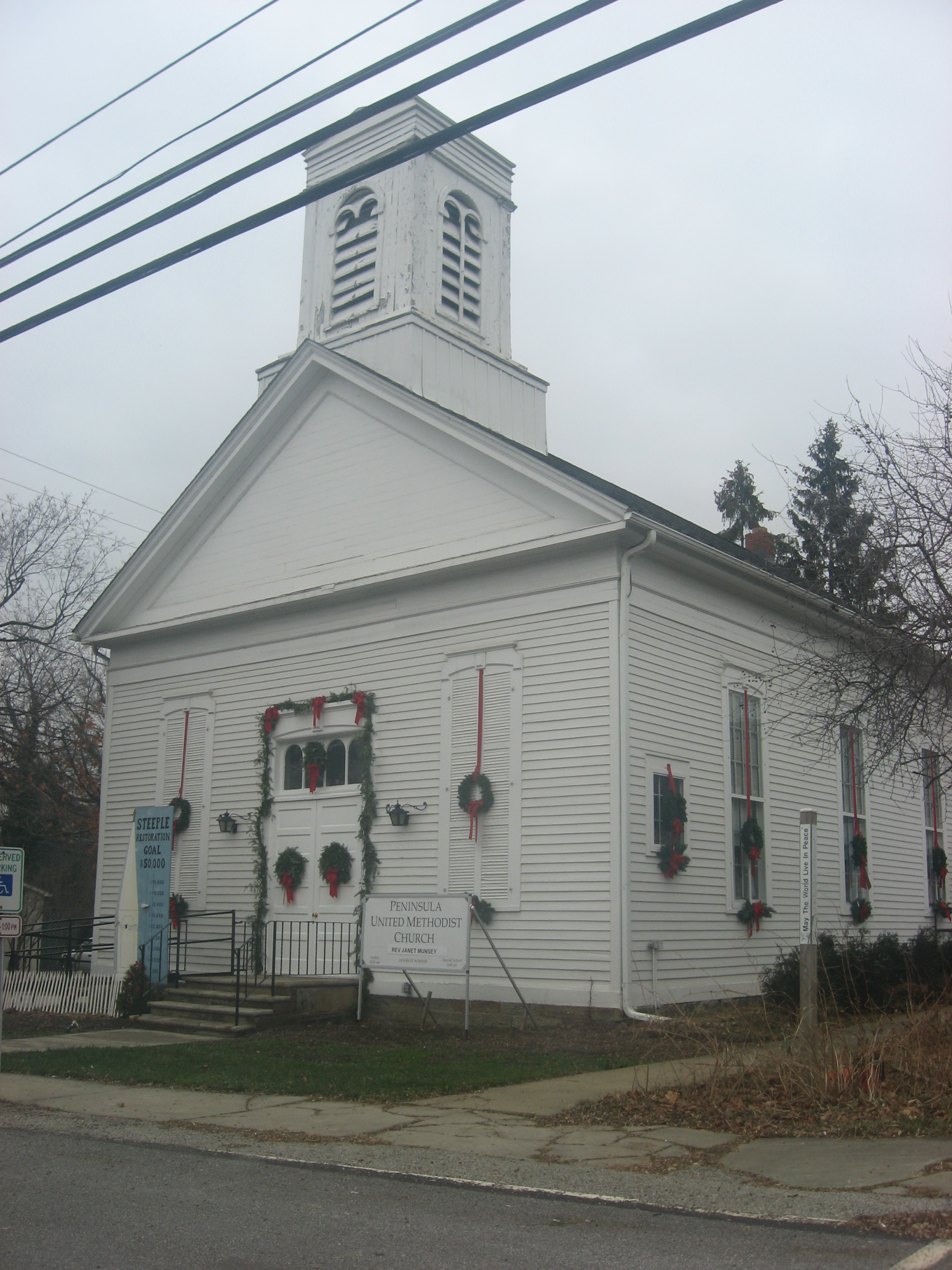 Front of Peninsula United Methodist Church in the Peninsula Village Historic District, located along Main Street (State Route 303) at its intersection with Akron-Peninsula Road in Peninsula, Ohio, United States.